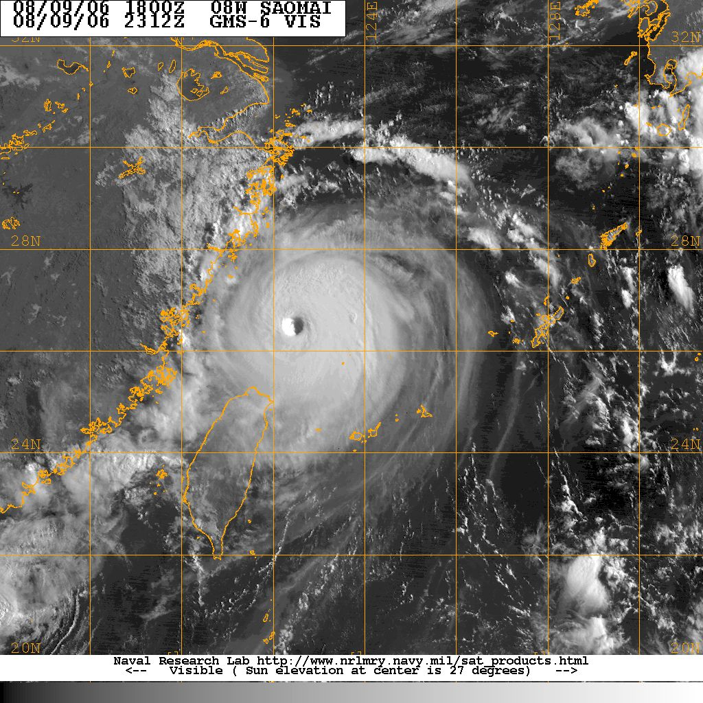 Super Typhoon Saomai at peak intensity.